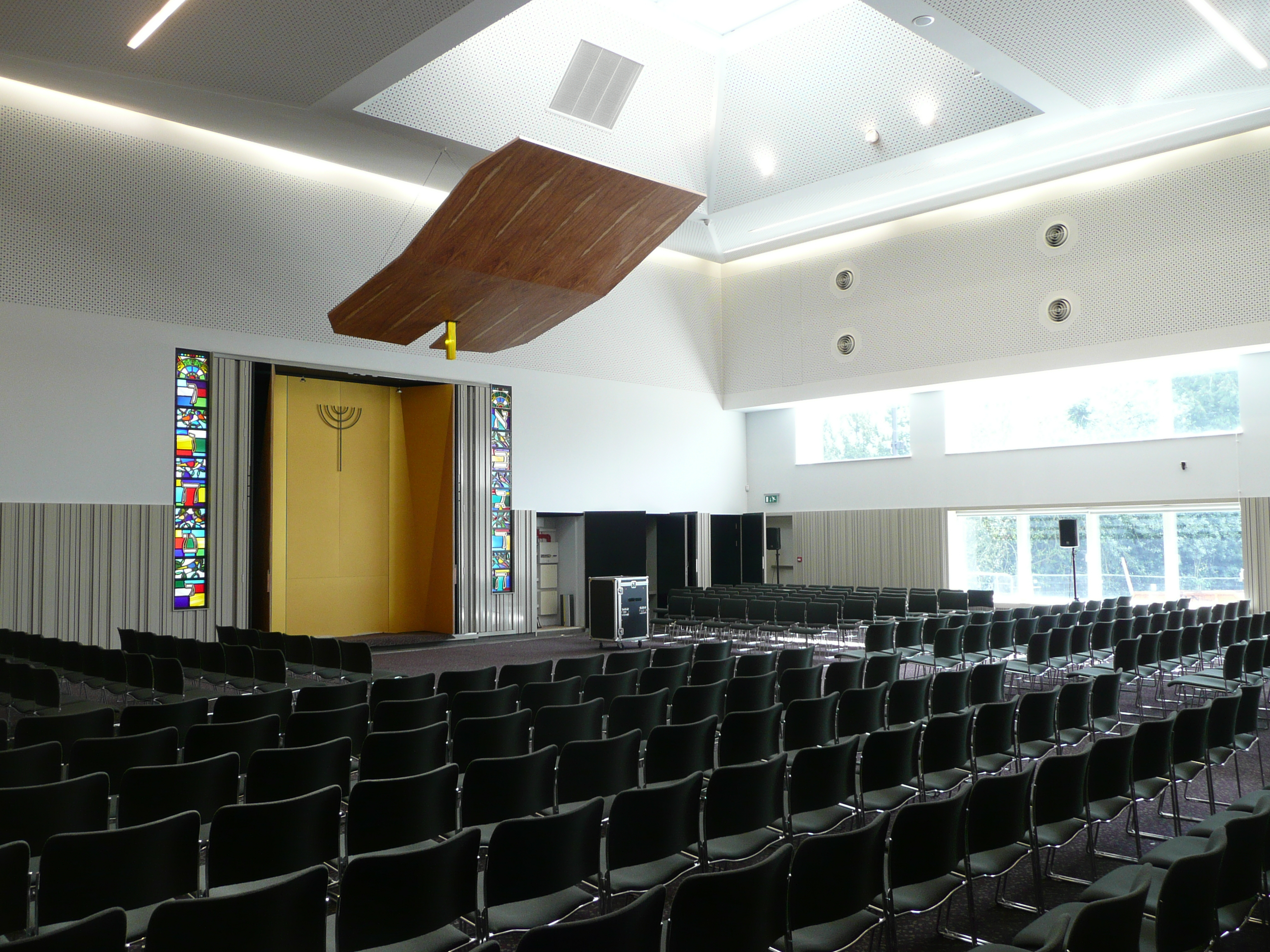 Interior of Schul area with sacred objects & altar. Designed by van Heyningen and Haward Architects and opened in 2011.